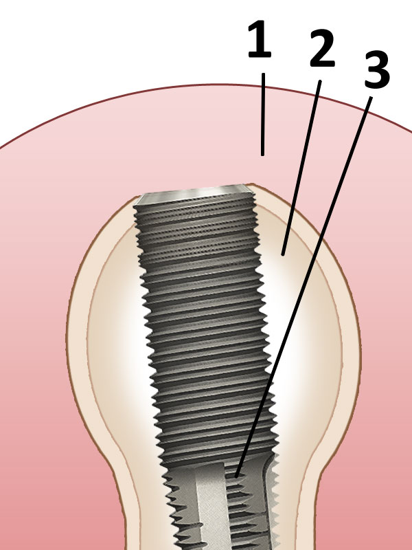 Dental implant